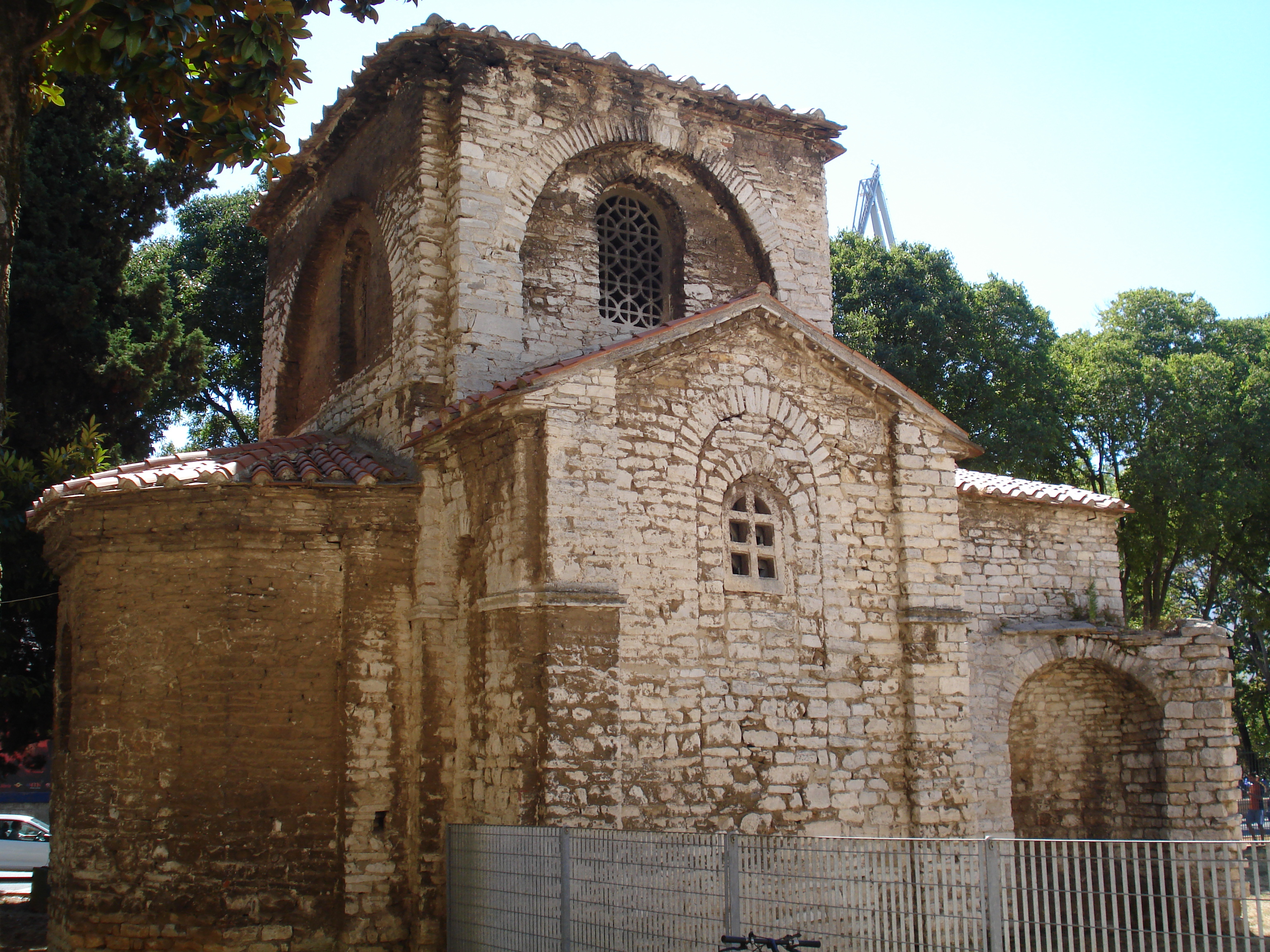 Chapel of St. Mary Formosa in Pola, Croatia